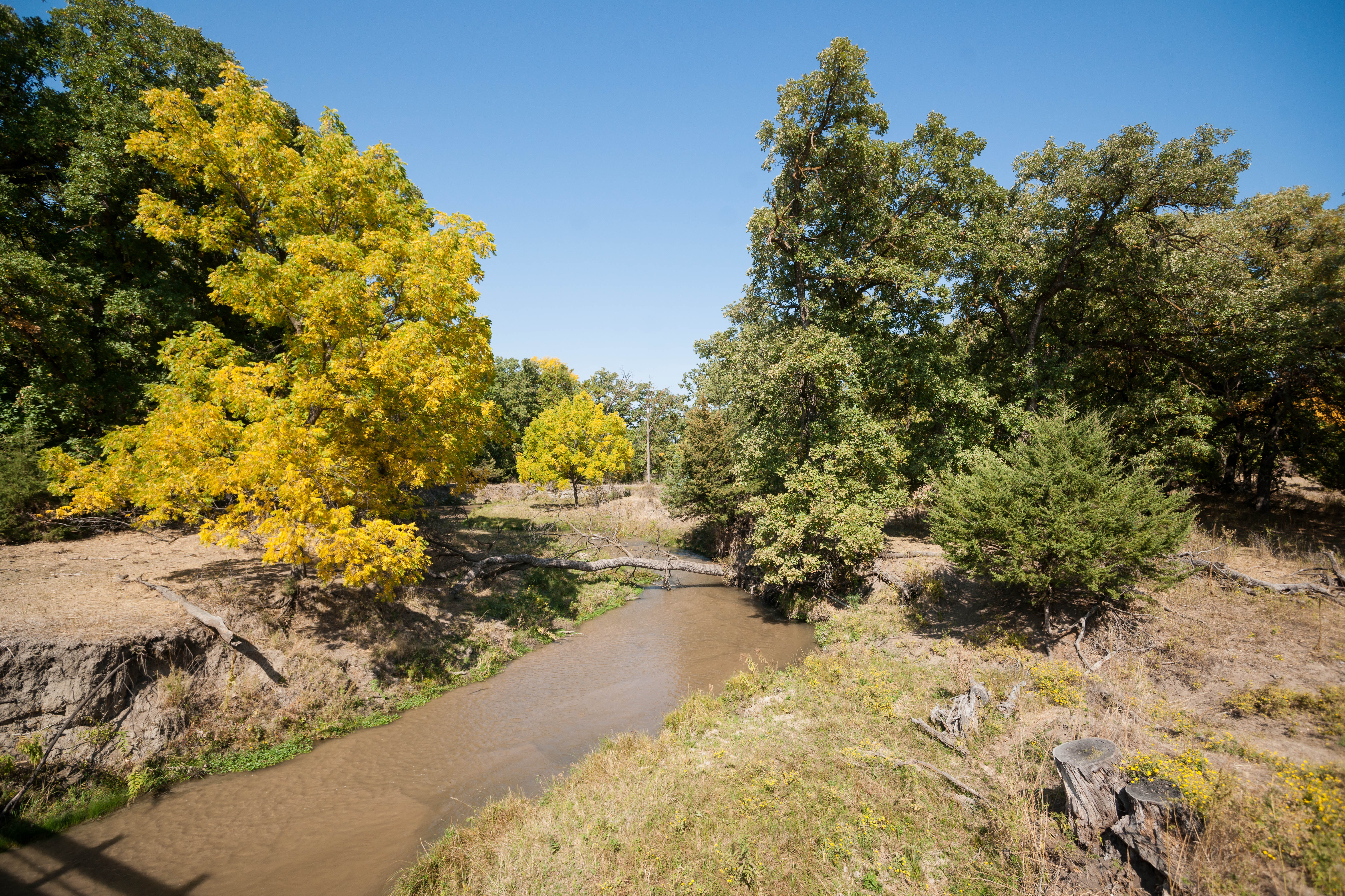 From